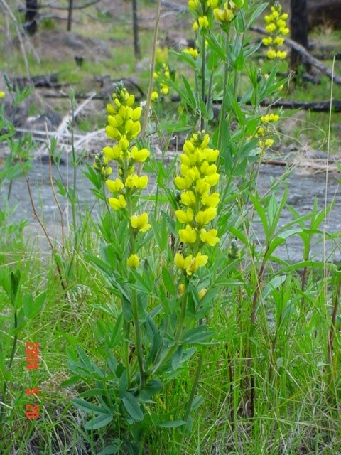 Thermopsis montana Nutt. mountain goldenbanner Symbol: THMO6 Group: Dicot Family: Fabaceae Duration: Perennial Growth Habit: Forb/herb Native Status: L48 N